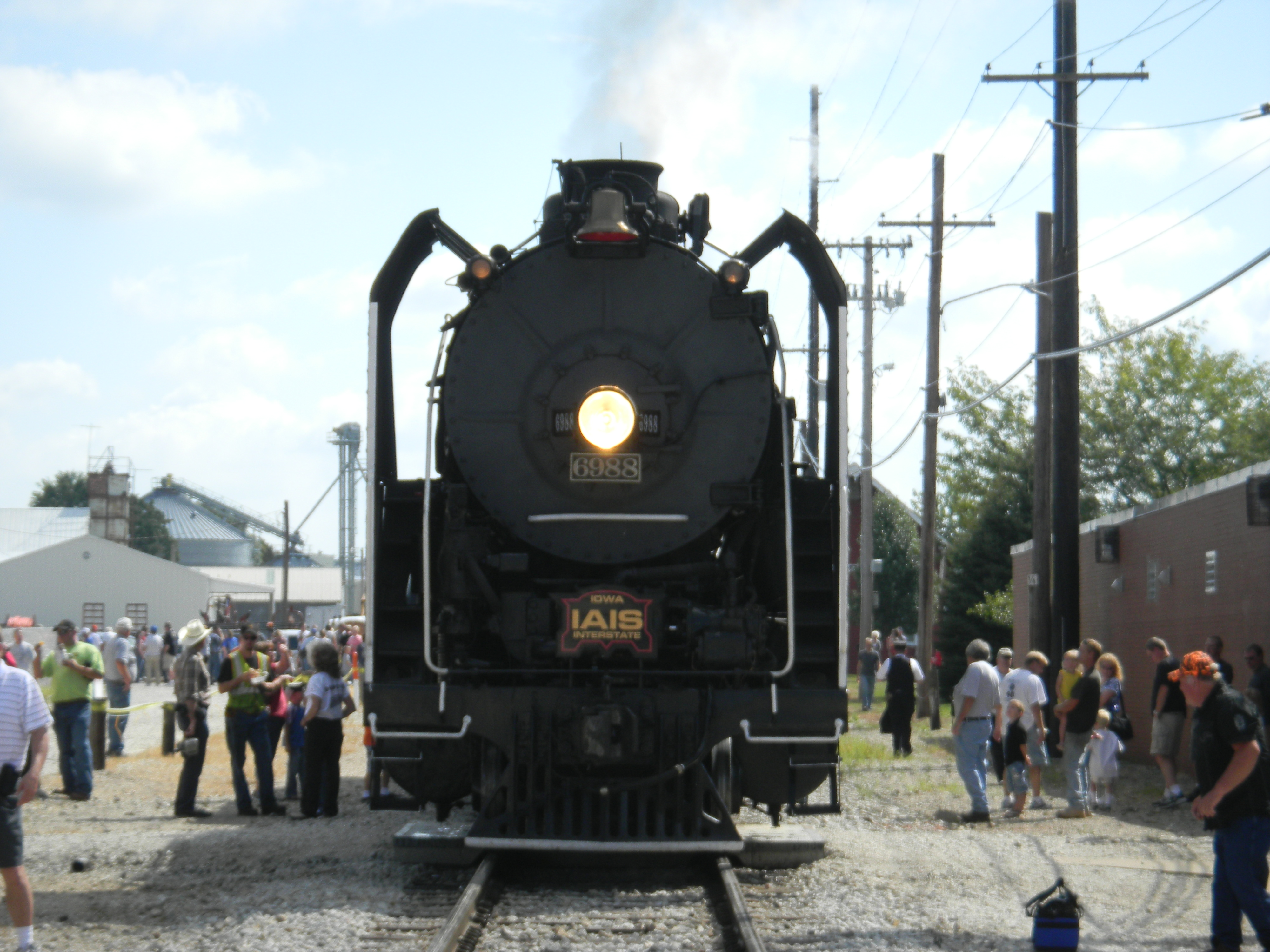 IAIS QJ 6988 nose-on